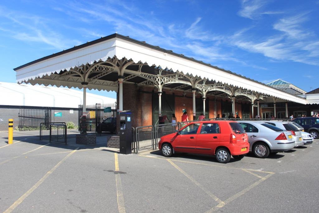 Most of Felixstowe railway station was converted into a shopping centre in 1985. The one platform that was retained was cut in half to allow cars to reach the car parking area that was created from the second platform and goods yard. The canopy was retained and the truncated ends finished with the correct valencing.